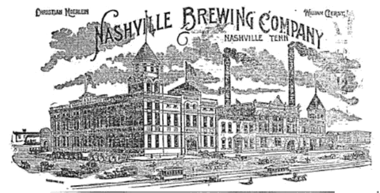 Nashville Brewing Company 1891 illustration, published in The Tennessean (Nashville, Tennessee; February 3, 1891), p. 8.